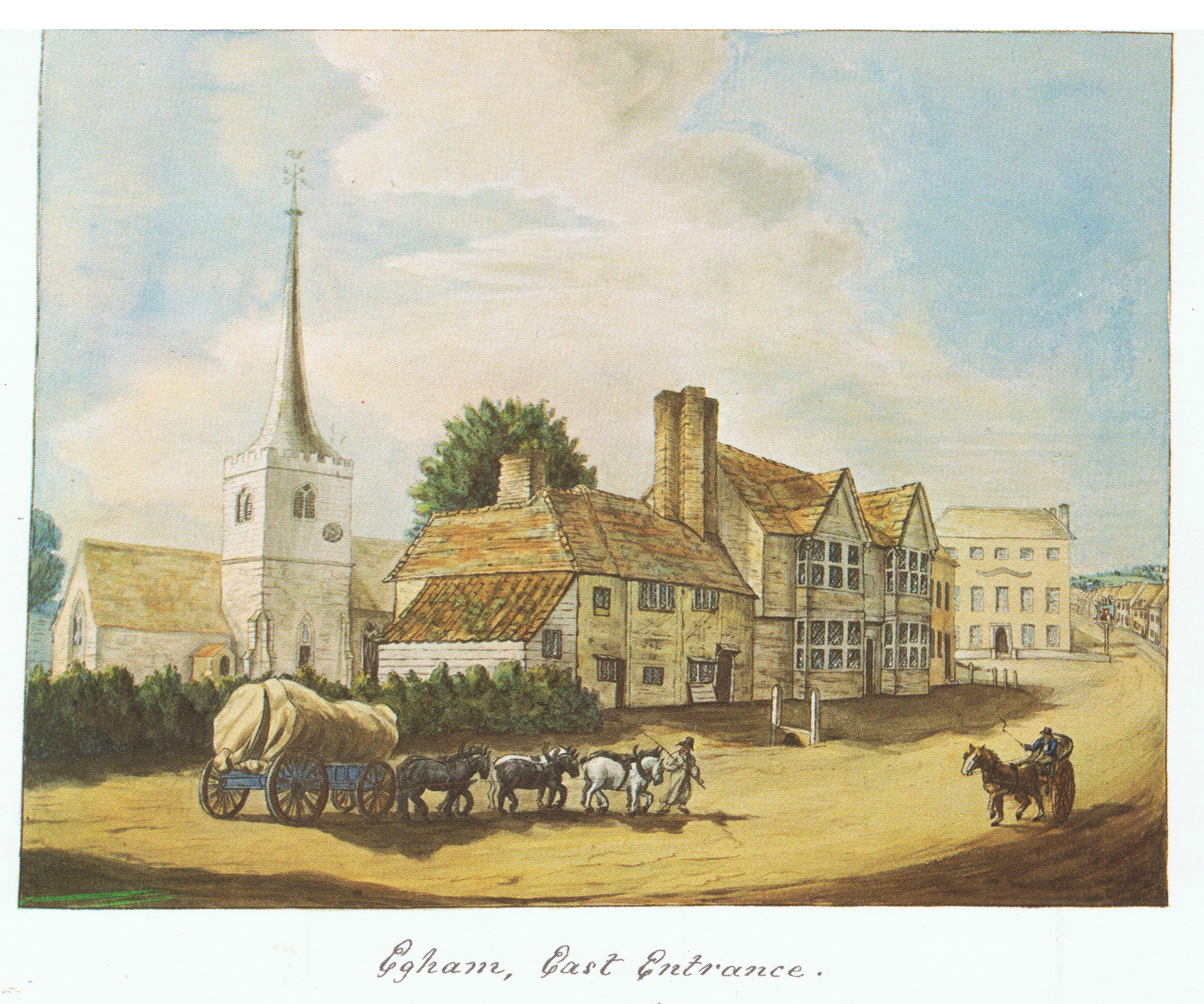 Scan (by me, R. de Salis, Rodolph (talk) 12:52, 21 January 2015 (UTC)) of a postcard reproduction of a watercolour of eastern entrance to Egham, pre. 1817, in Runnymede Borough Council collection, c/o Egham Museum Trust.